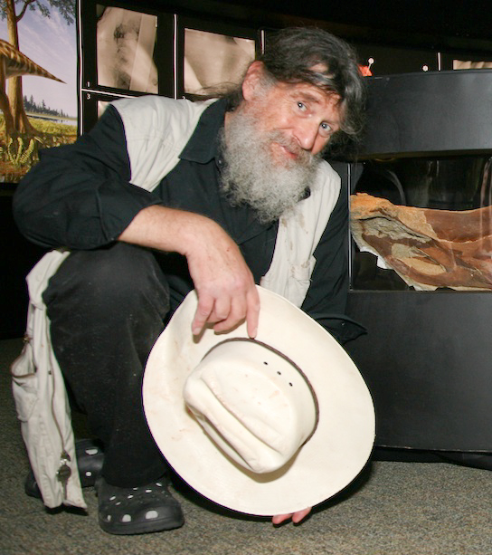 Dr. Bob Bakker of the Houston Museum of Natural Science (HMNS). Creative commons photo - free to use for commercial or nonprofit, including derivs, with attribution "photo by Ed Schipul" And oh by the way, Dr. Bakker is AWESOME. Erin with HMNS arranged the preview for Leonardo and Dr. Bakker spent most of the time playing with the kids. He LOVES this stuff.